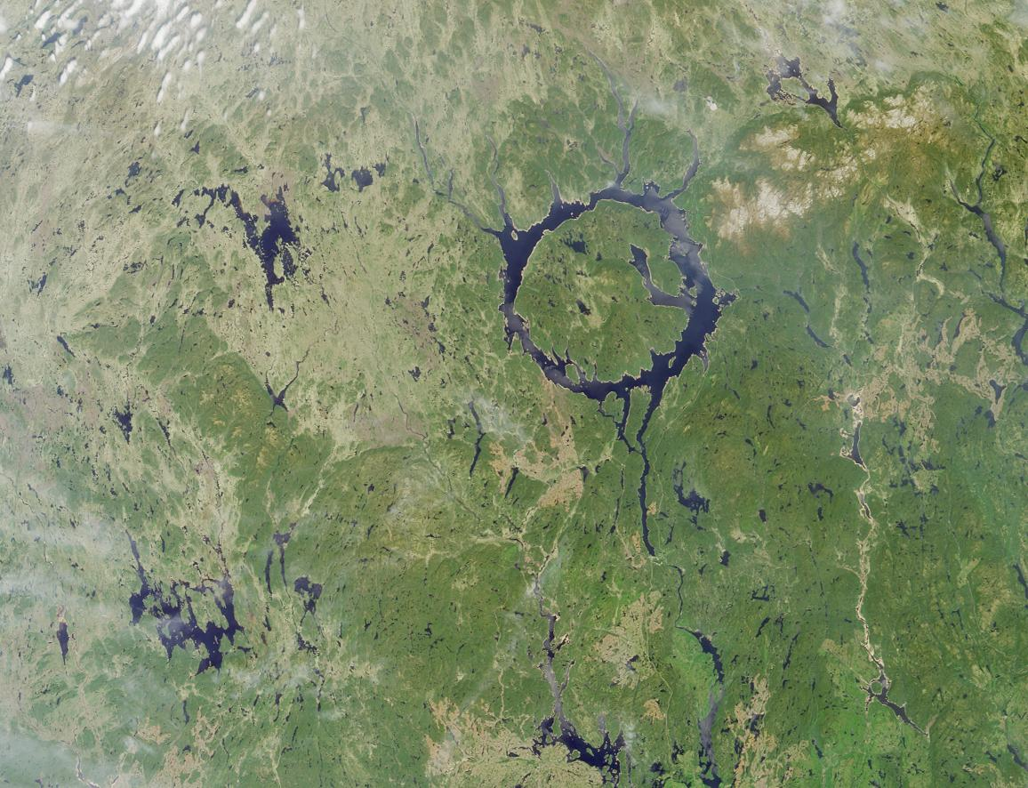 Photo of the Manicouagan crater in Quebec, Canada